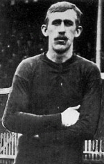 Swedish footballer Erik Börjesson in a lineup before a game, probably around 1909-12.